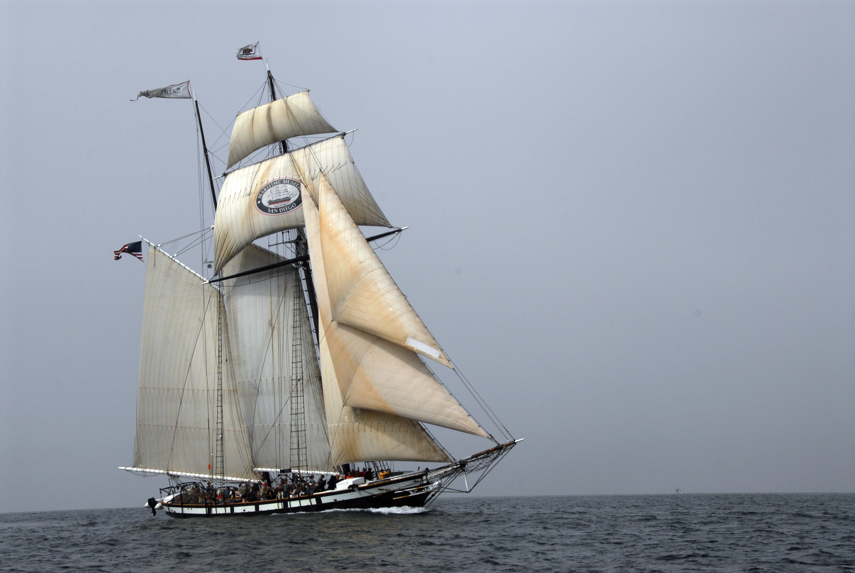 The following is the author's description of the photograph quoted directly from the photograph's Flickr page. Cannon fire welcomed the armada of ships parading into the San Diego Bay on the opening day of the Festival of Sail on Labor Day weekend 2010. Photo Courtesy: Dale Frost